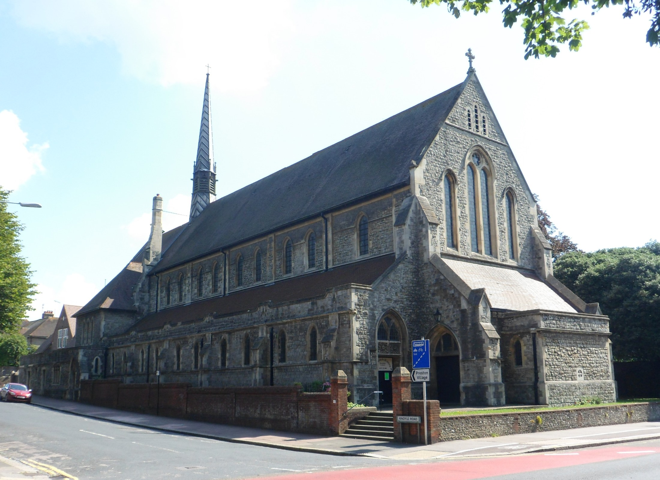 St John the Evangelist's Church, junction of London Road and Knoyle Road, Preston Village, City of Brighton and Hove, England.